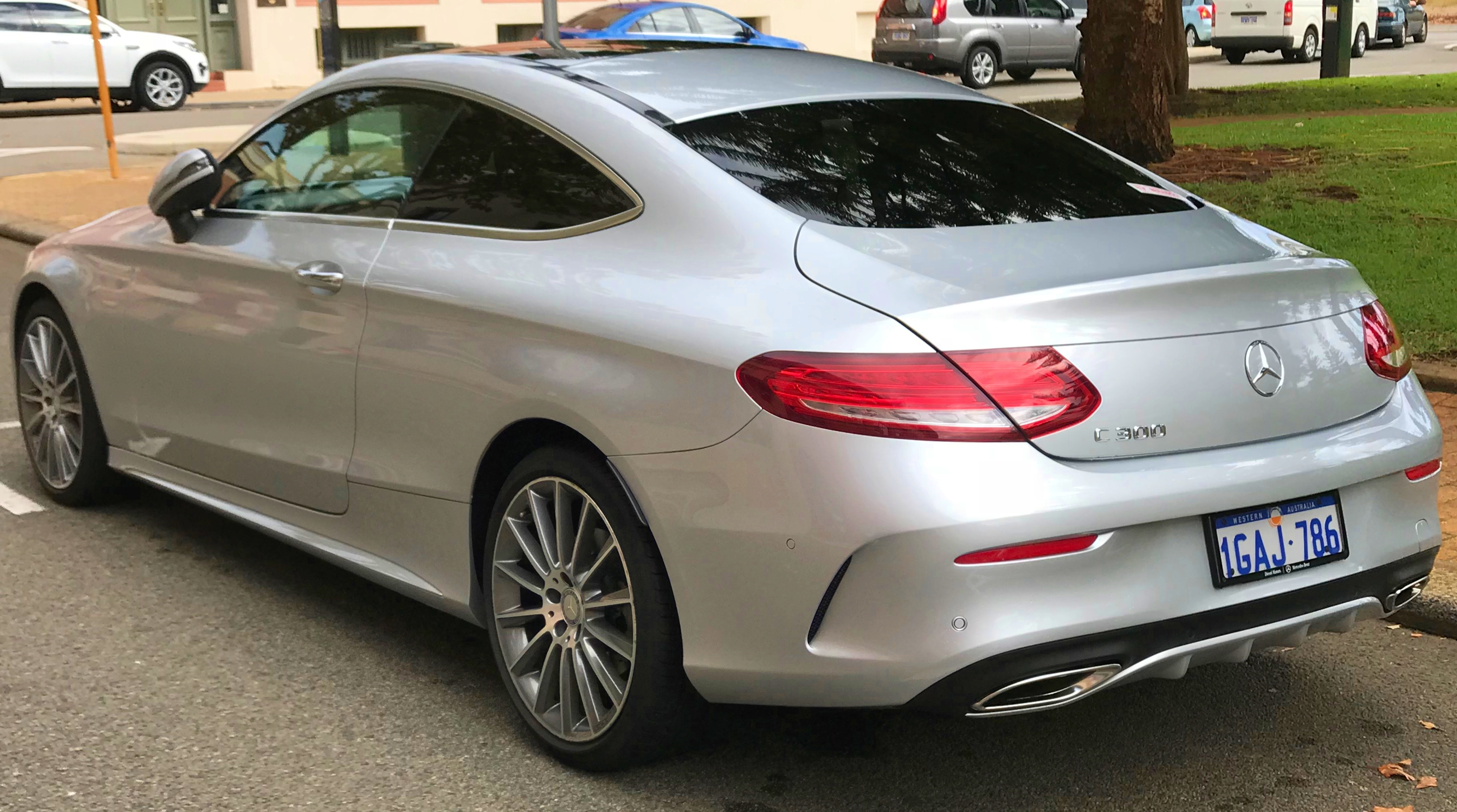 2016 Mercedes-Benz C 300 (C 205) coupe. Photographed in Fremantle, Western Australia, Australia.